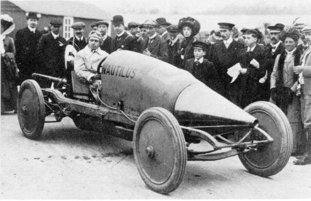 Louis Coatalen at Brooklands in the Sunbeam Nautilus in 1910. Additional fairings around the cockpit and extreme "tail" have been removed in this photo.